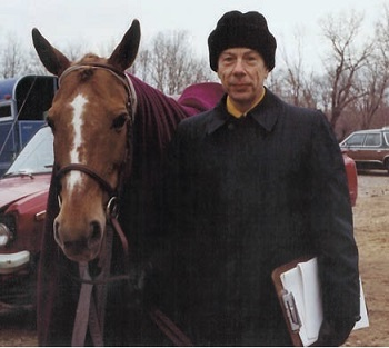 Mathematician Andrew Mattei Gleason "with the inevitable clipboard under his arm"